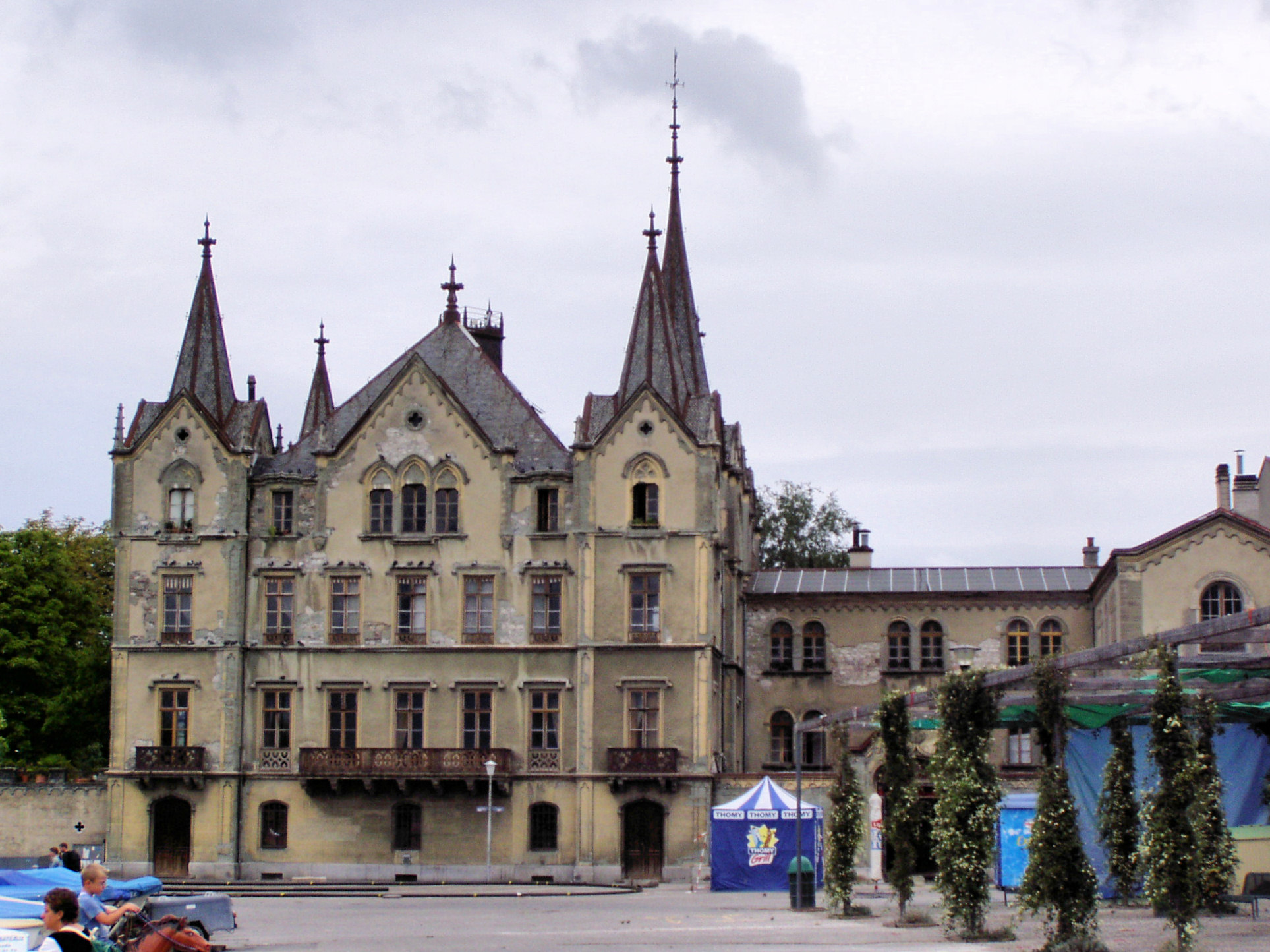 Château de l'Aile in Vevey, Switzerland.